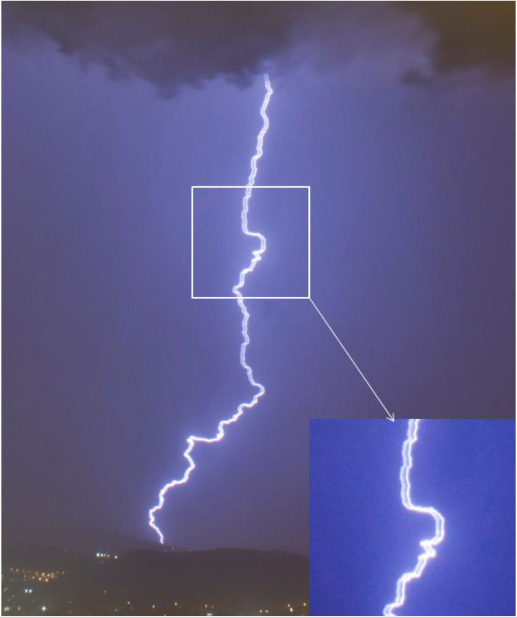 Ribbon lightning